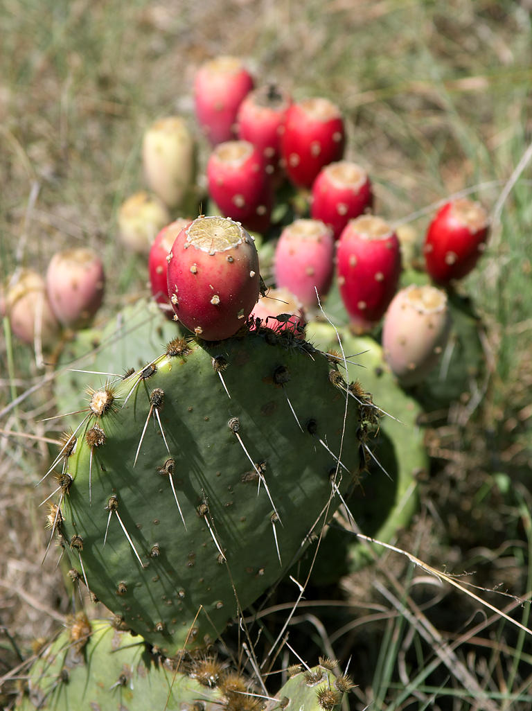 Prickly Pear Closeup